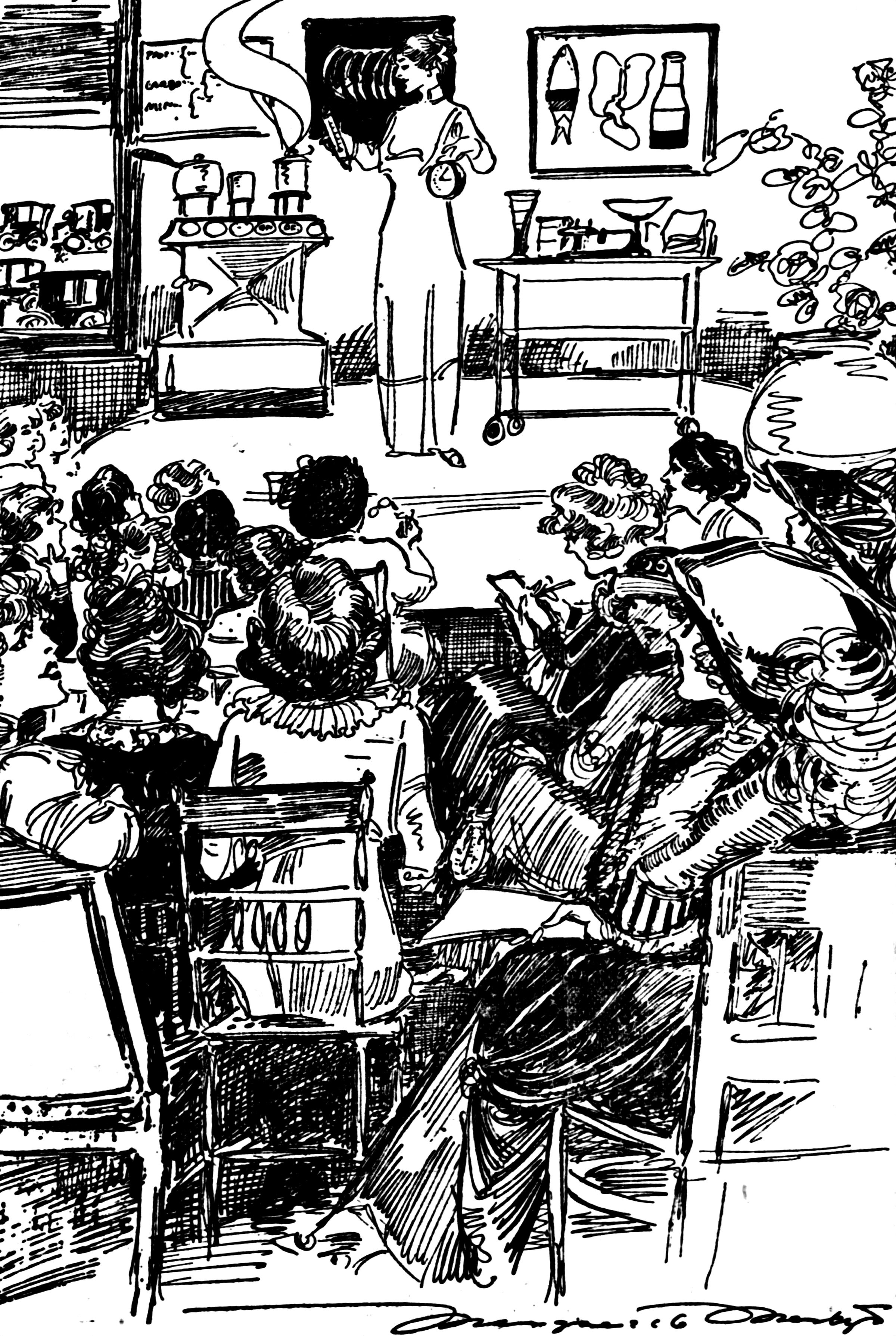 Sketch by Marguerite Martyn of Vocational Education in the United States, a cooking class at the St. Louis, Missouri, YWCA, with Ana Barrows as teacher and women in the audience.